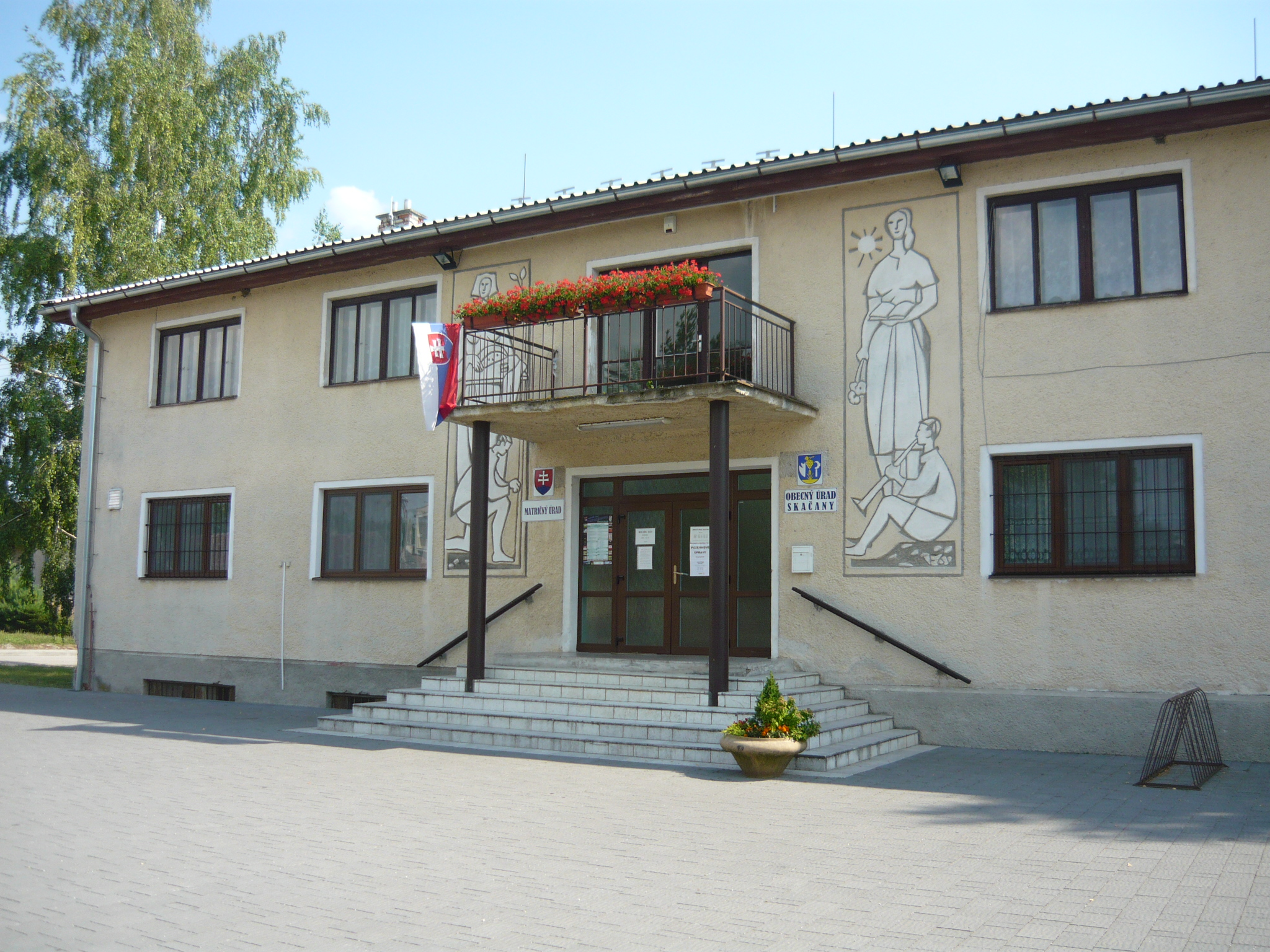 Town hall of Skačany, Slovakia.